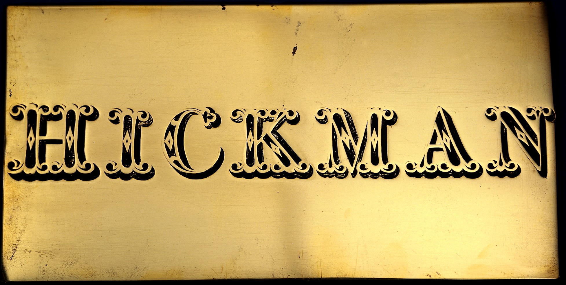 Brass name plate inscribed, "HICKMAN", presumably a relic of H.H.Hickman. Presumably among Hickman relics lent or given to the Wellcome Historical Medical Museum or Library. Wellcome Images Keywords: Henry Hill Hickman